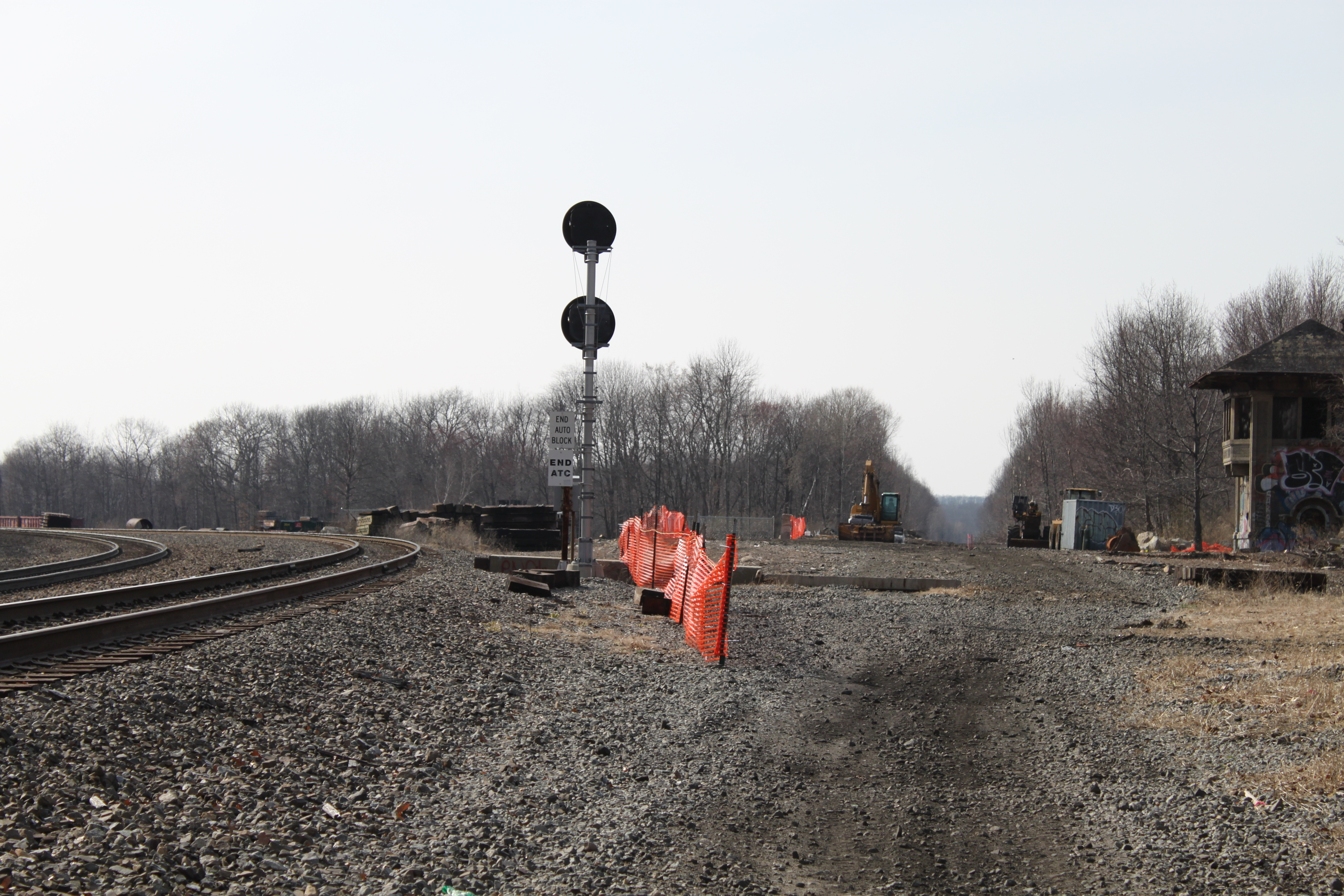 Facing west from Port Morris Junction, New Jersey, towards Lackawanna Cut-Off and Port Morris yard.